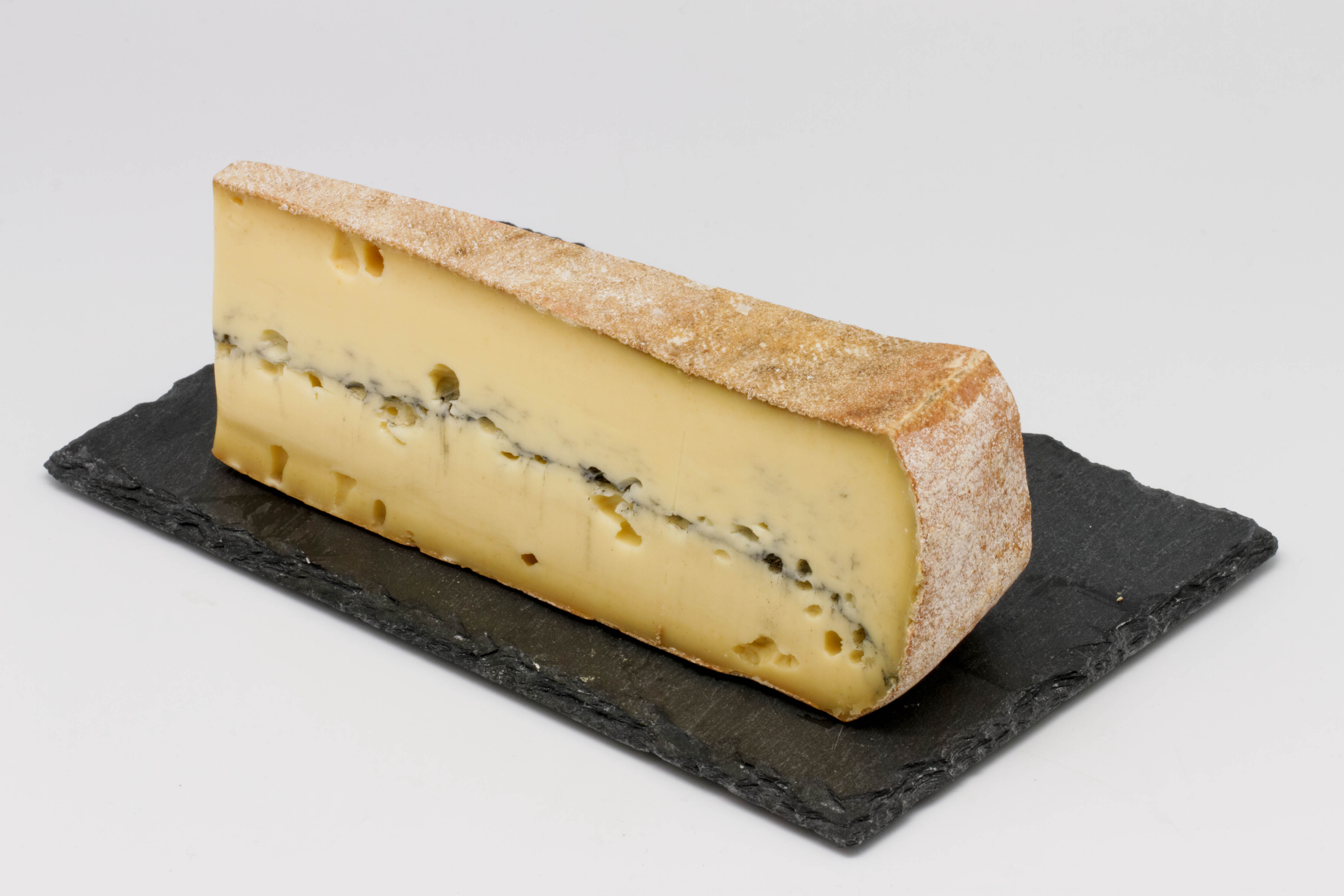 Morbier